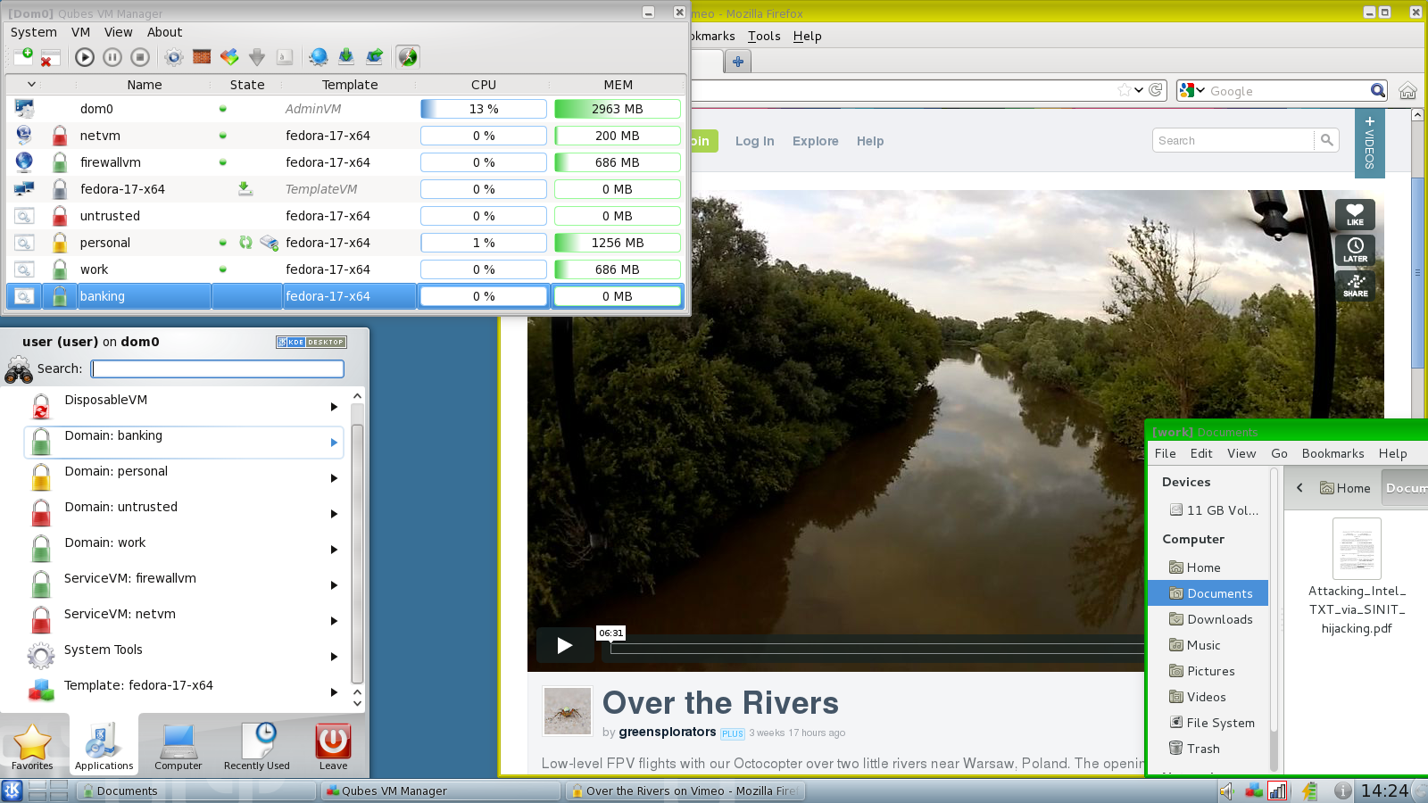 Applications running in different virtual machines